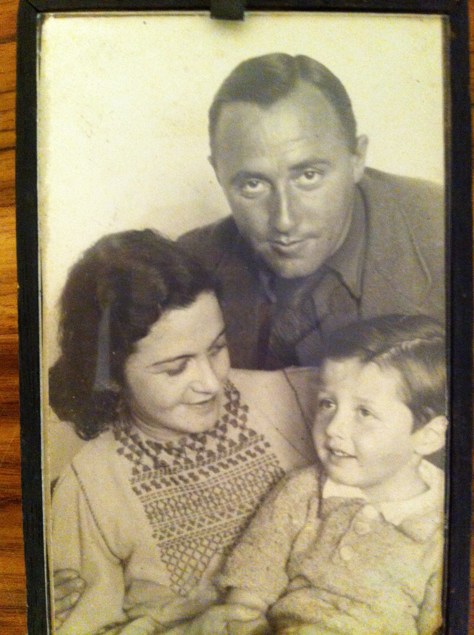 Samuel Jacobson as a baby with his parents